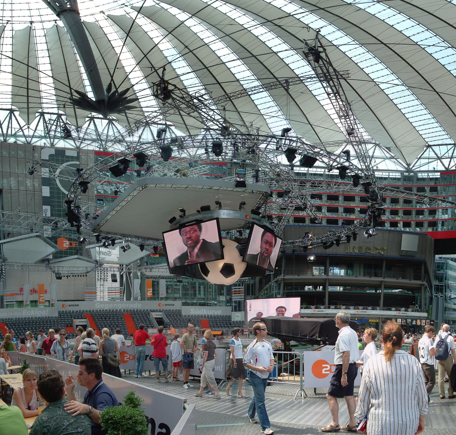 During the Fifa World Cup Soccer 2006 in Germany the forum of the Sony Center was used by the ZDF to host their World Cup television broadcasts.